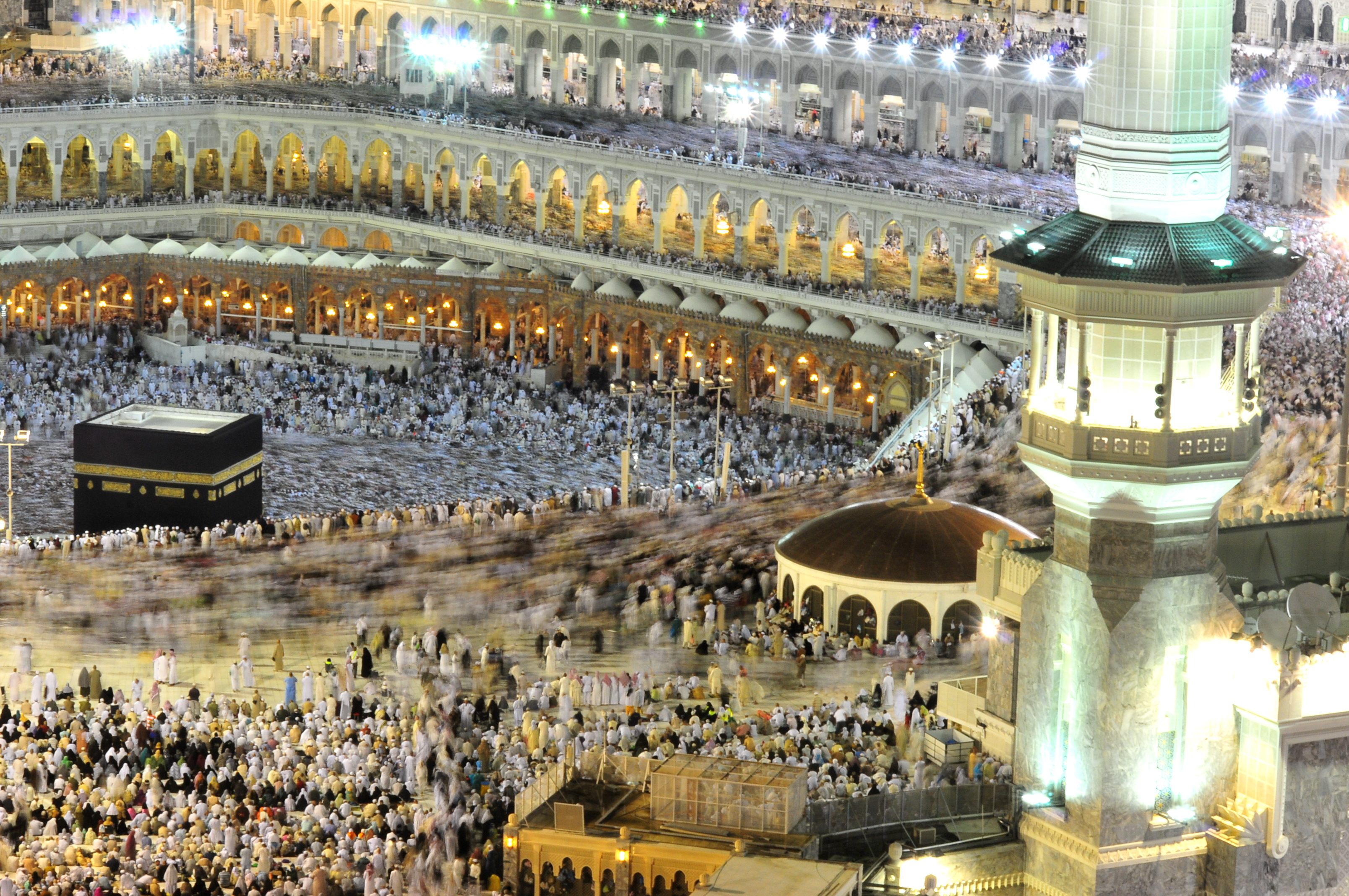 Photo by Fadi El Binni